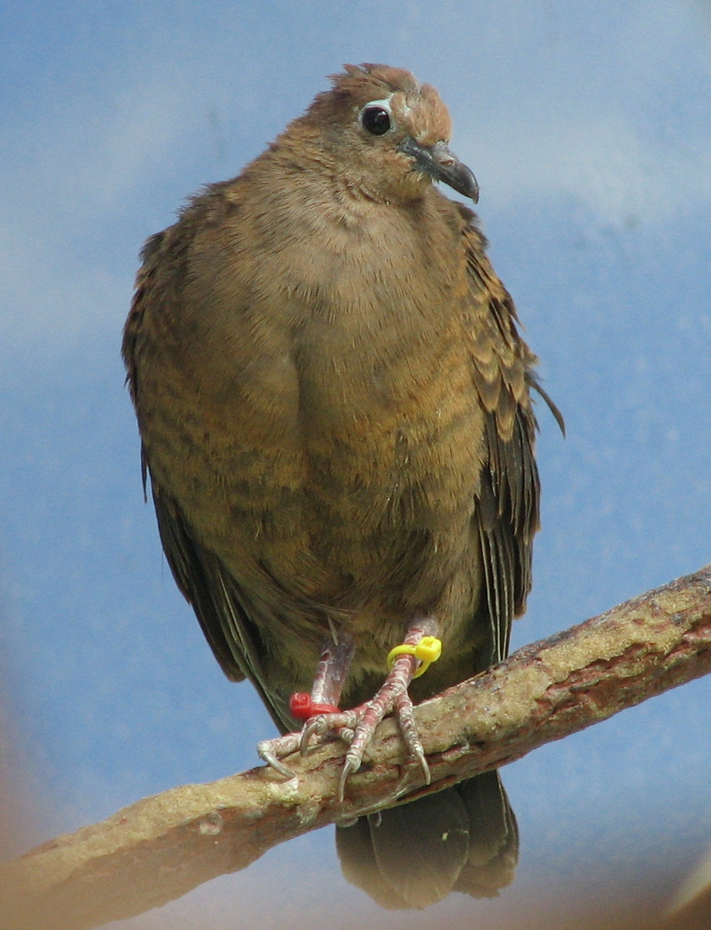 Female White Throated Ground Dove (Gallicolumba xanthonura) at the Louisville Zoo